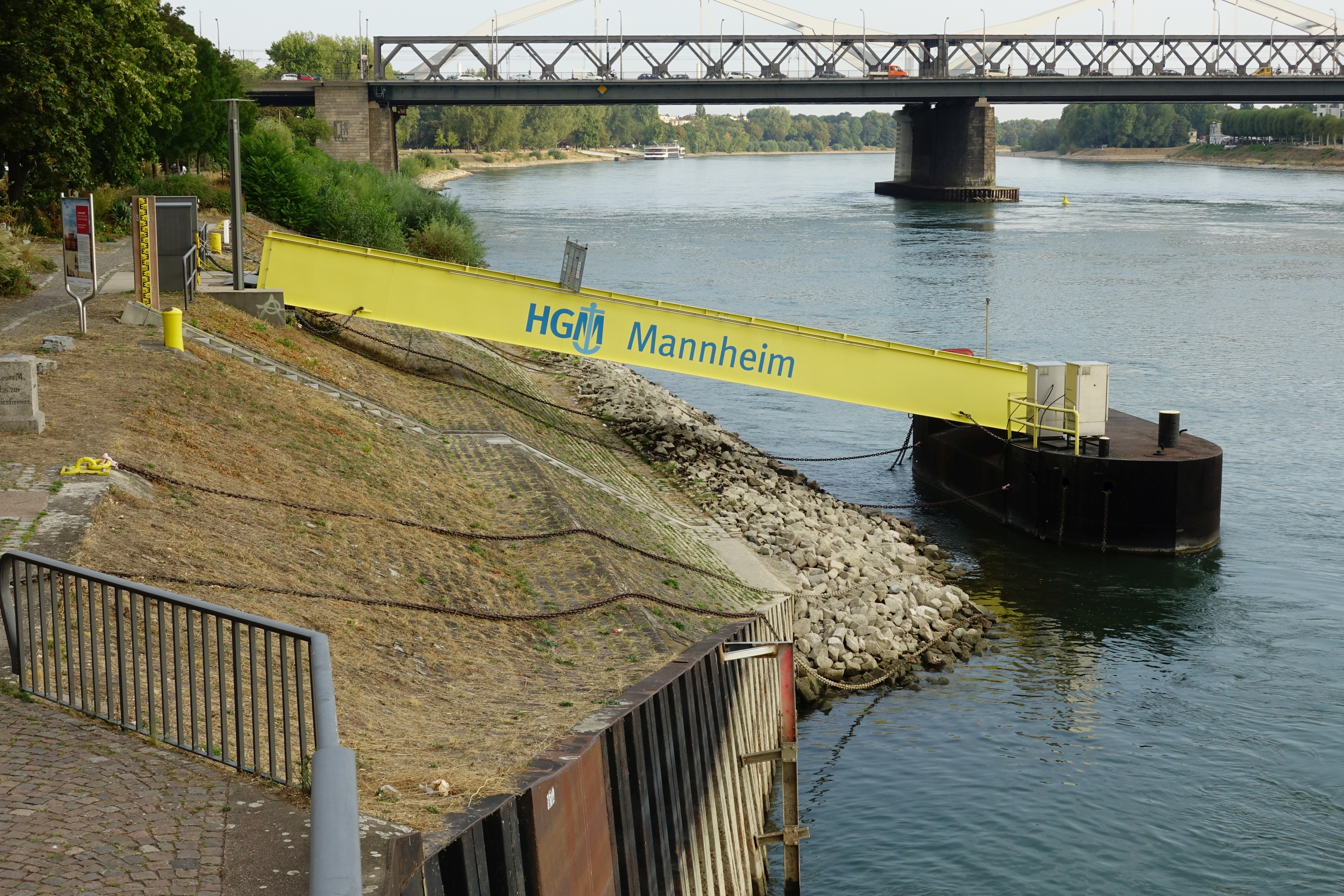 Rhine level marker Mannheim, riverside